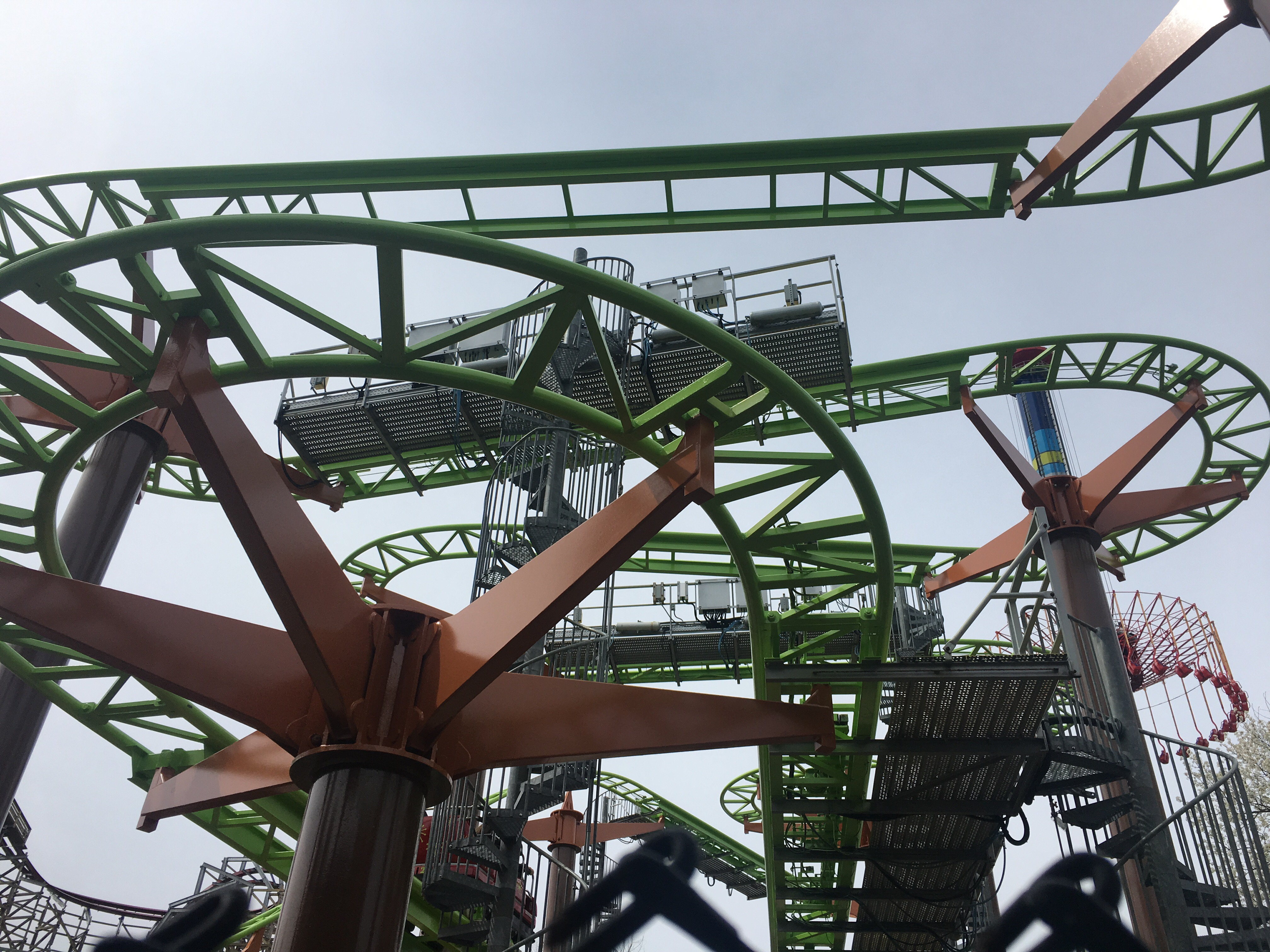 Apple Zapple at Kings Dominion. Taken March 24, 2018